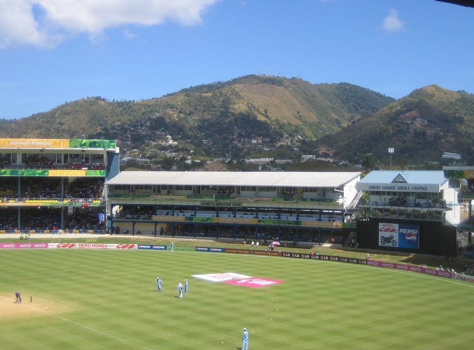 The Queen's Park Oval — and view of mountains in Port of Spain.